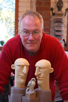 The source of this image is the photographer Duncan Reekie, who is the sole owner and copyright holder of this photograph and agrees to publish it under the Creative Commons Attribution 3.0 License.